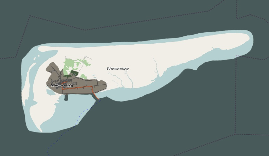 This map may be incomplete, and may contain errors. Don't rely solely on it for navigation.